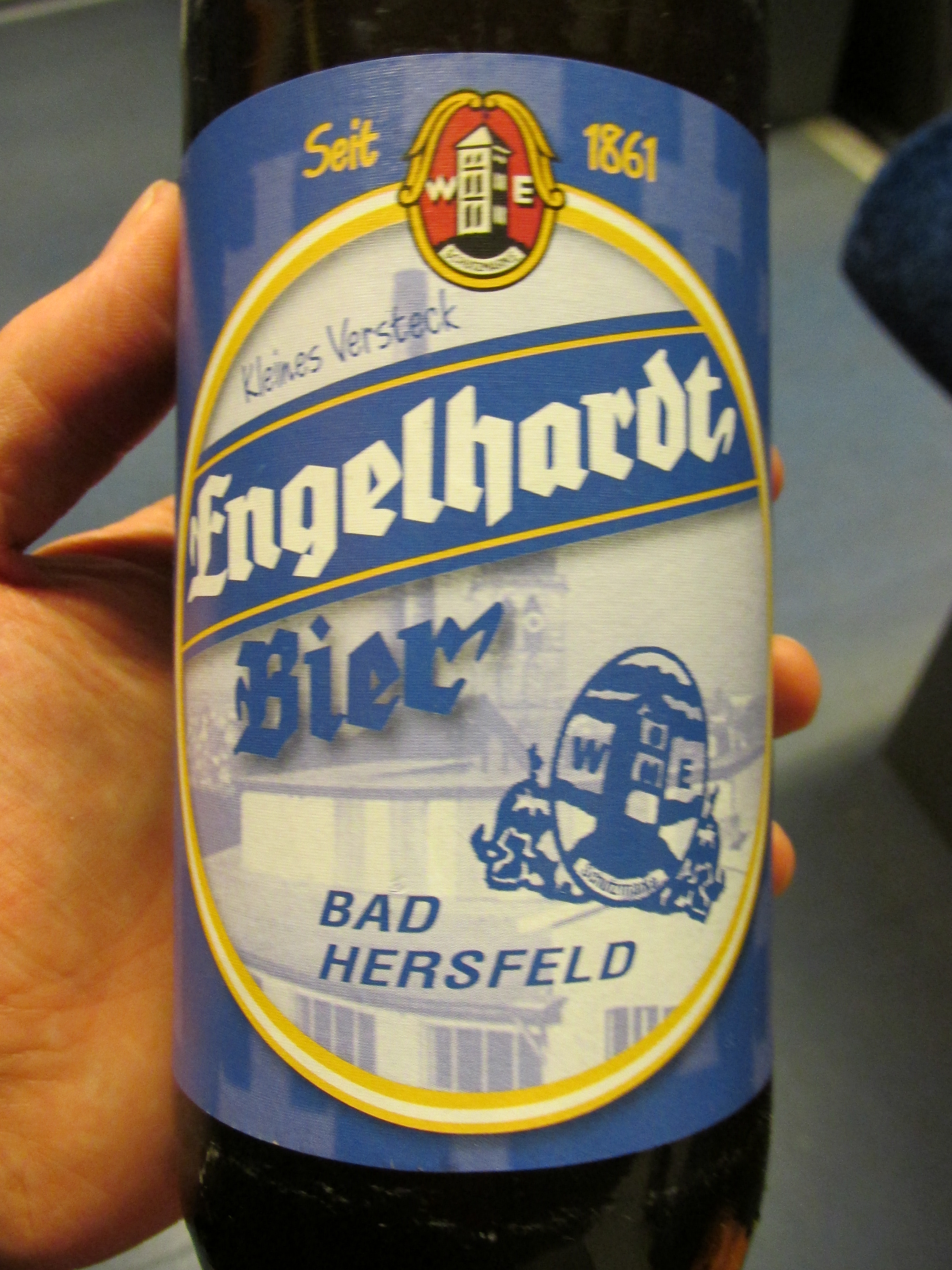 Engelhardt Beer from Bad Hersfeld check usage